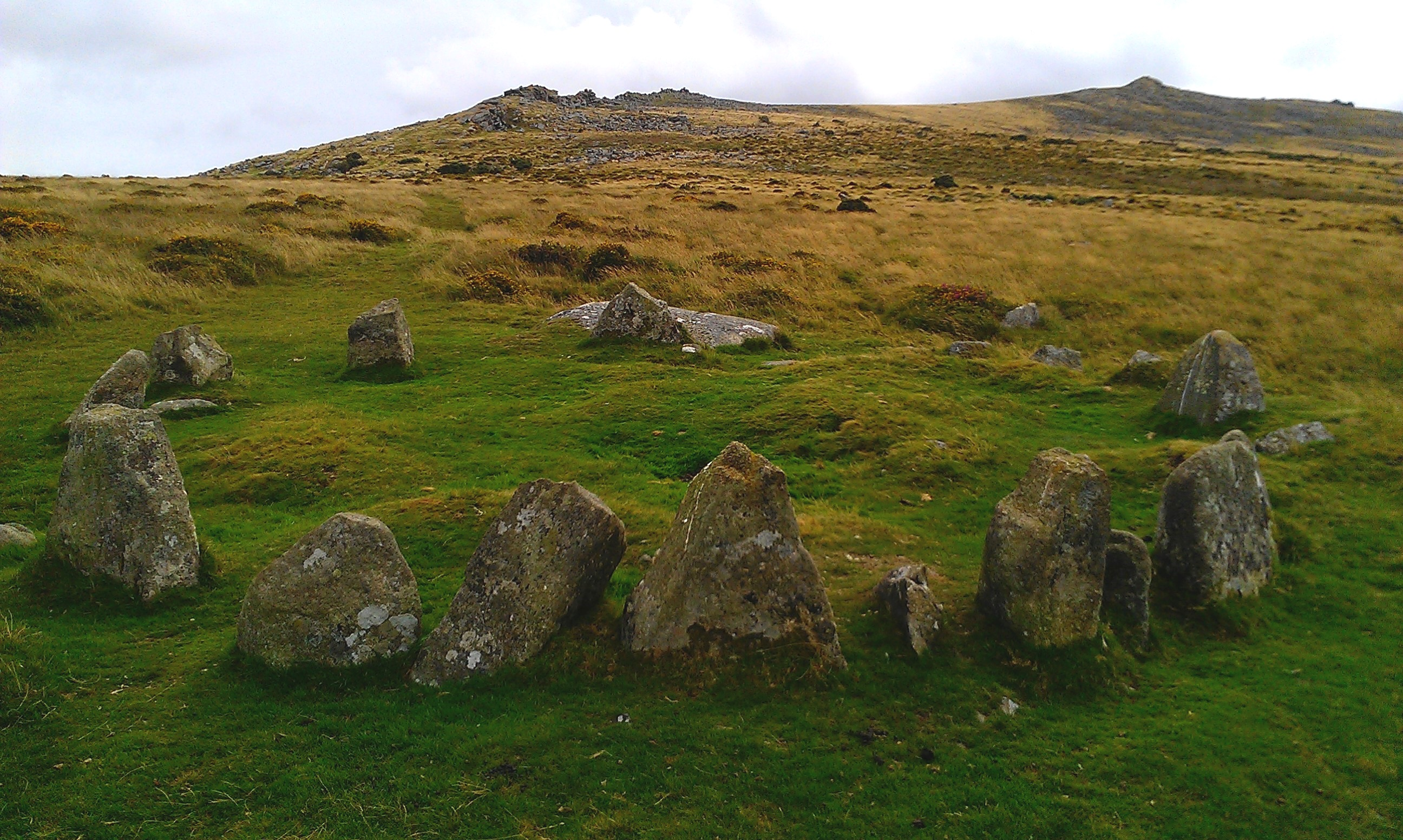 The Nine Stones circle, a ring cairn on Belstone Common near to the village of Belstone in Dartmoor, Devon. This image was taken facing a south-easterly direction, with Belstone Tor in the background.